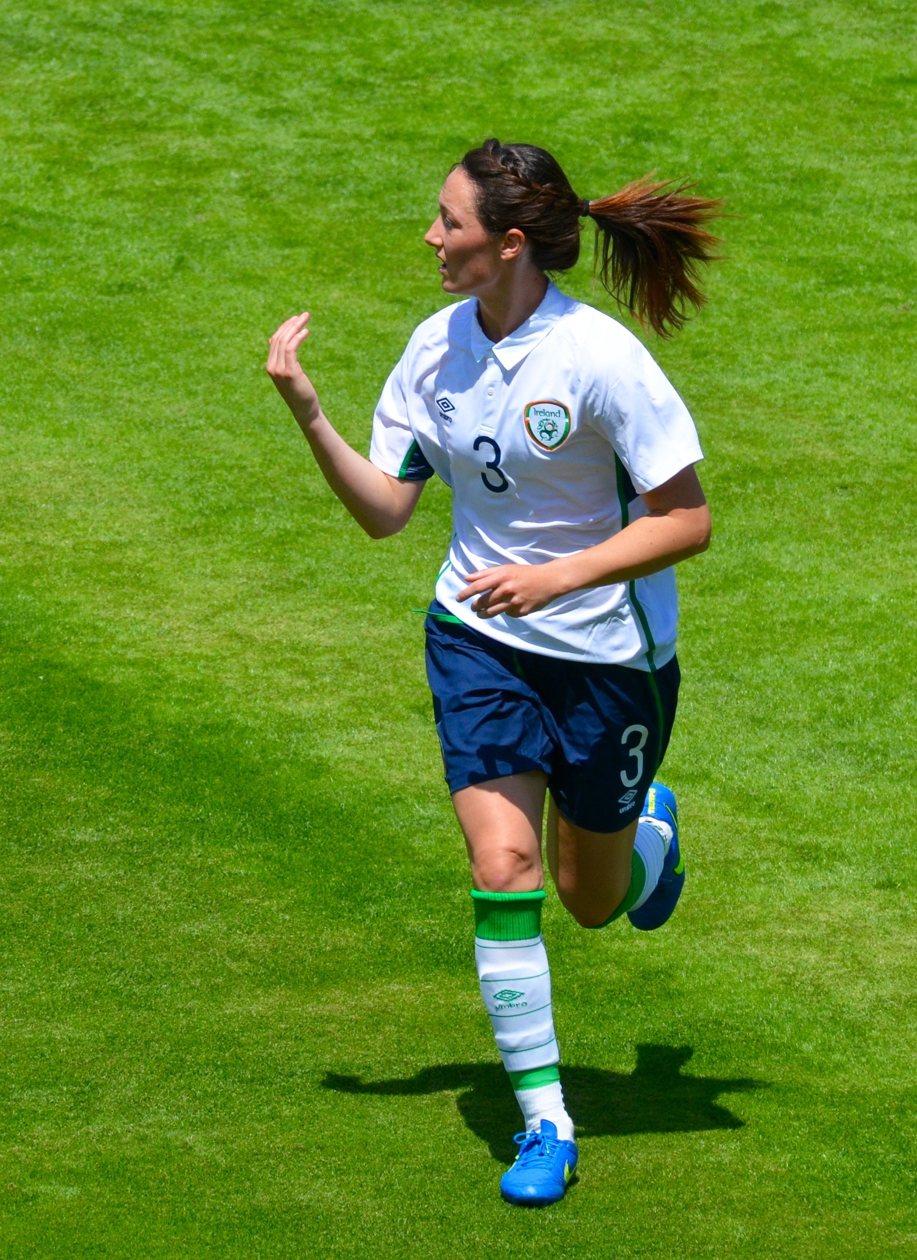 Megan Campbell playing for the Republic of Ireland in San Jose, California on 10 May 2015.